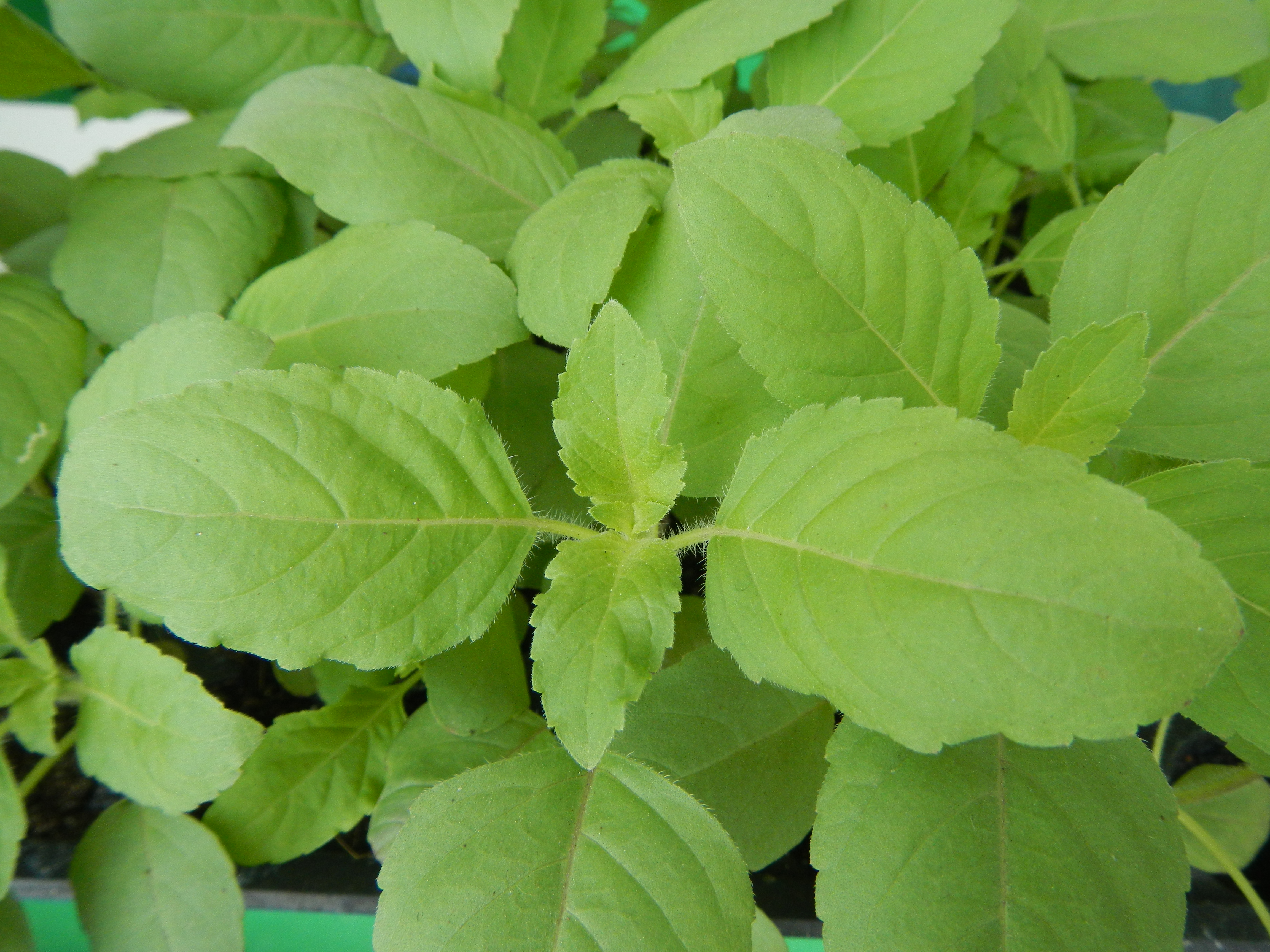 Ocimum tenuiflorum Ocimum tenuiflorum Ocimum tenuiflorum, also known as Ocimum sanctum, holy basil, or tulasī, is an aromatic plant in the family Lamiaceae Thai basil Sulasi Ocimum sanctum Linn. Holy Basil, Thai Holy Basil Ocimum sanctum 'Samui'